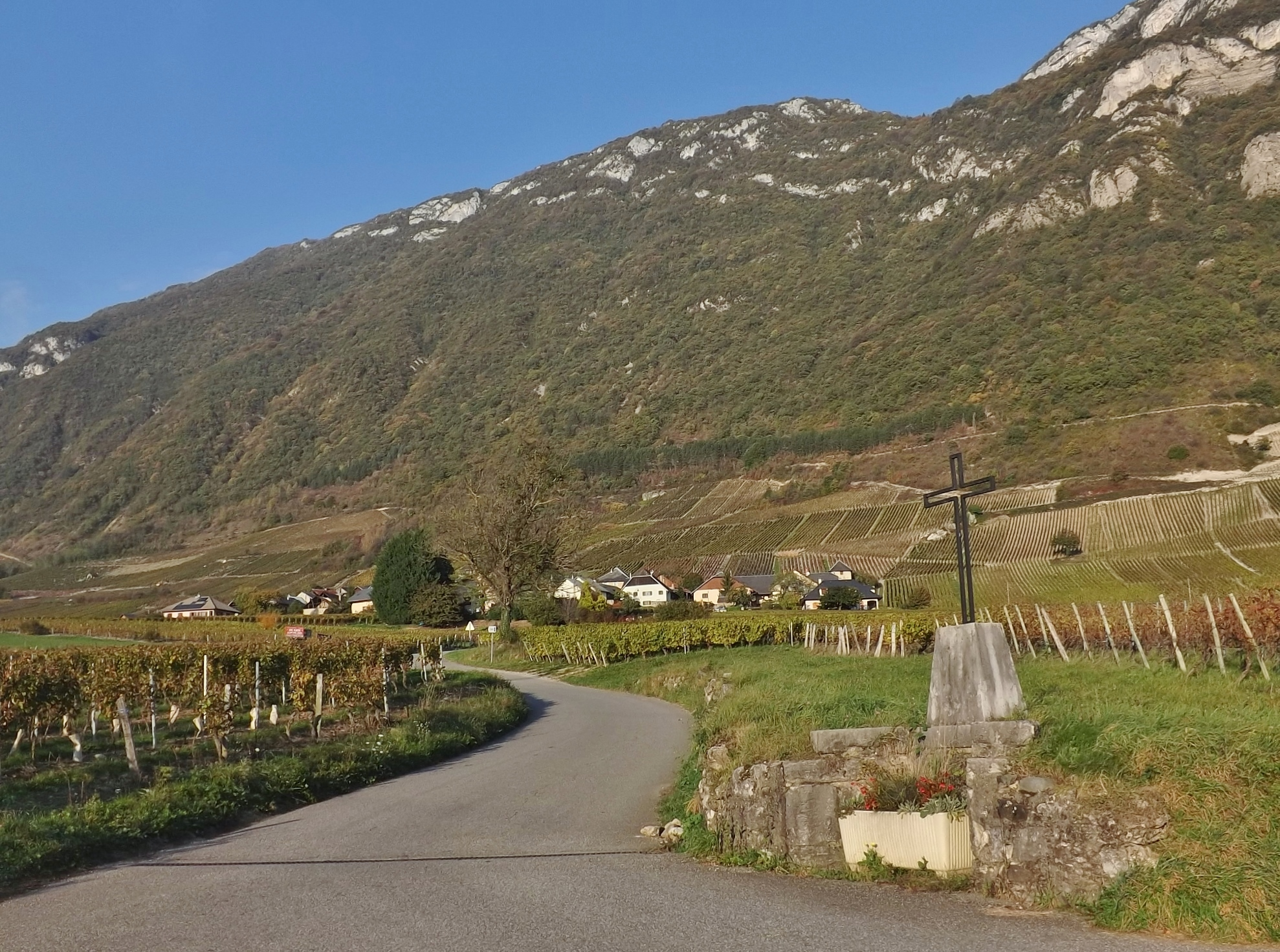 Sight, in autum, of Tormery hamlet, on the French wine-producer commune of Chignin, near Chambéry in Savoie.